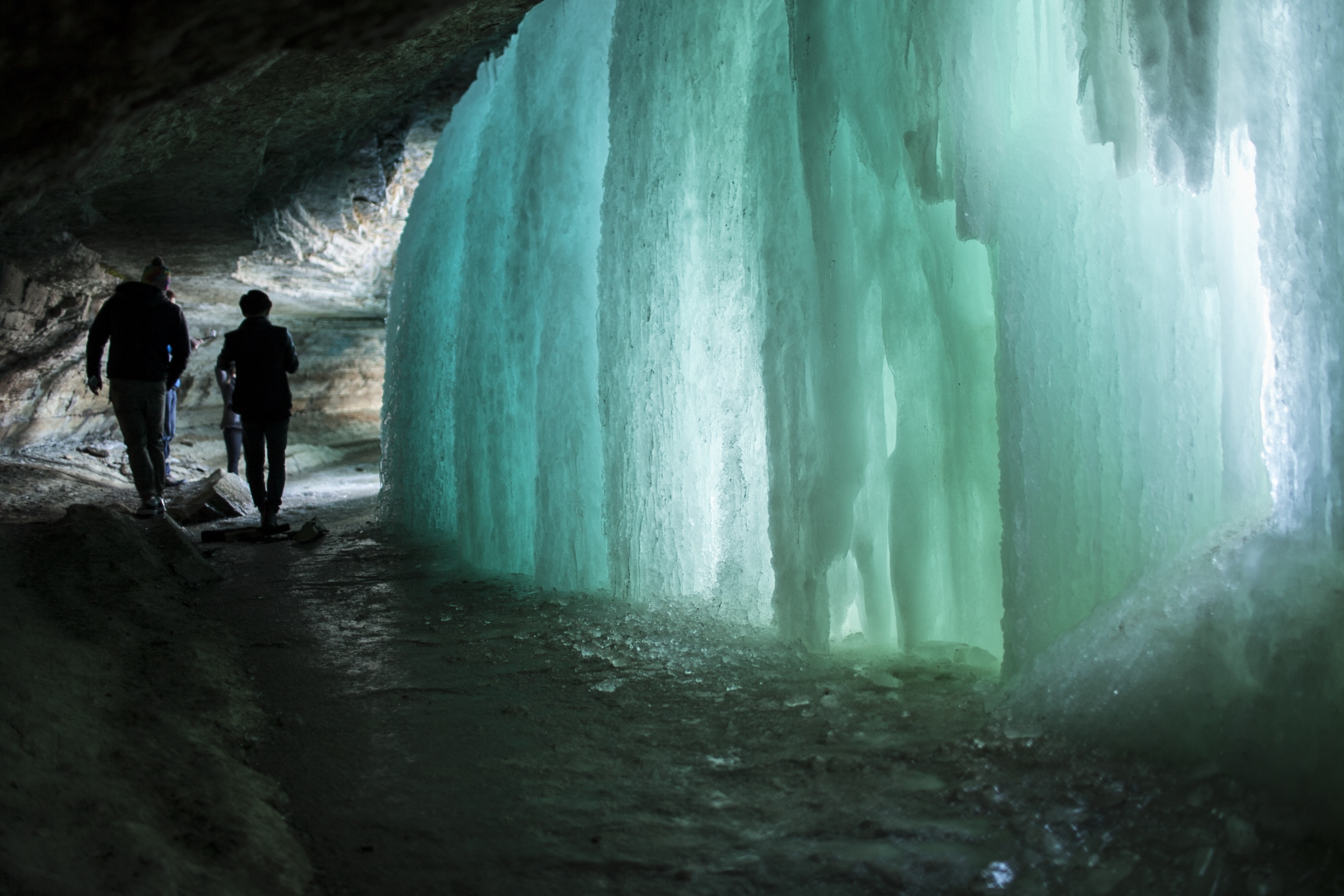 Winter… yuck! We tend to complain about the winter season a lot every year. We agonize over the frigid the temperatures and the amount of snow we have to shovel off our driveways and pathways. But once we get past all the whining, winter does have a lovely effect on the city if you care to see it, offering spectacular scenes like this one at Minnehaha Falls. The climb up to get a peek behind the frozen falls can be a bit treacherous but well worth the effort. I myself fell in the mud in front of a dozen people. My Levis were muddied but worth the sacrifice. For more check out my website